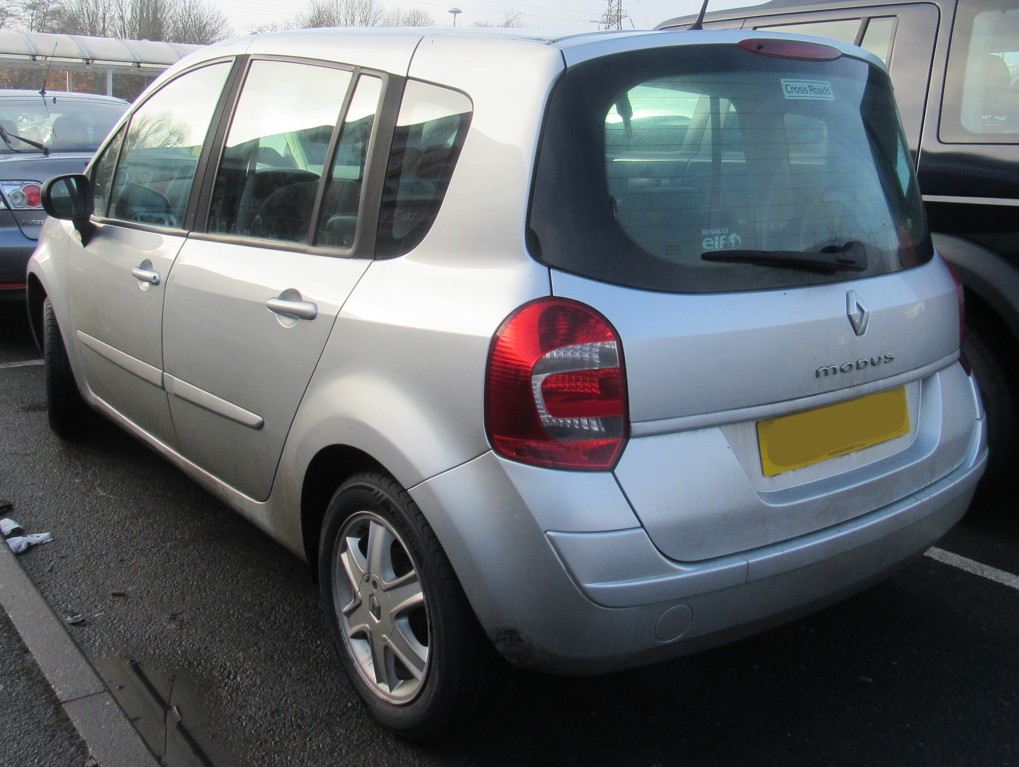 2008 Renault Grand Modus Dynamique TCE 1.1 Rear Taken in Warwick